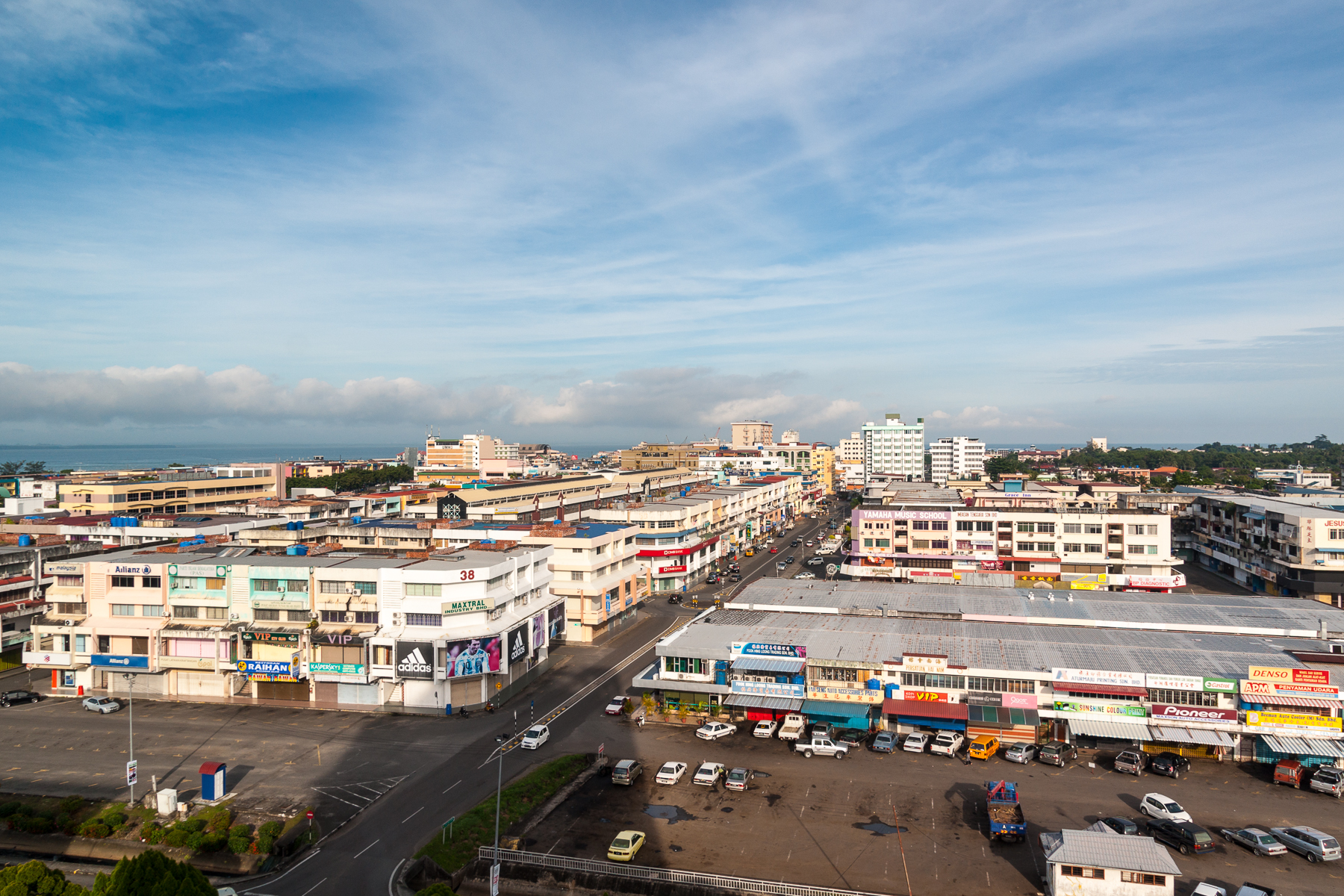 Tawau, Sabah: View of Town from 5th floor of LA Hotel